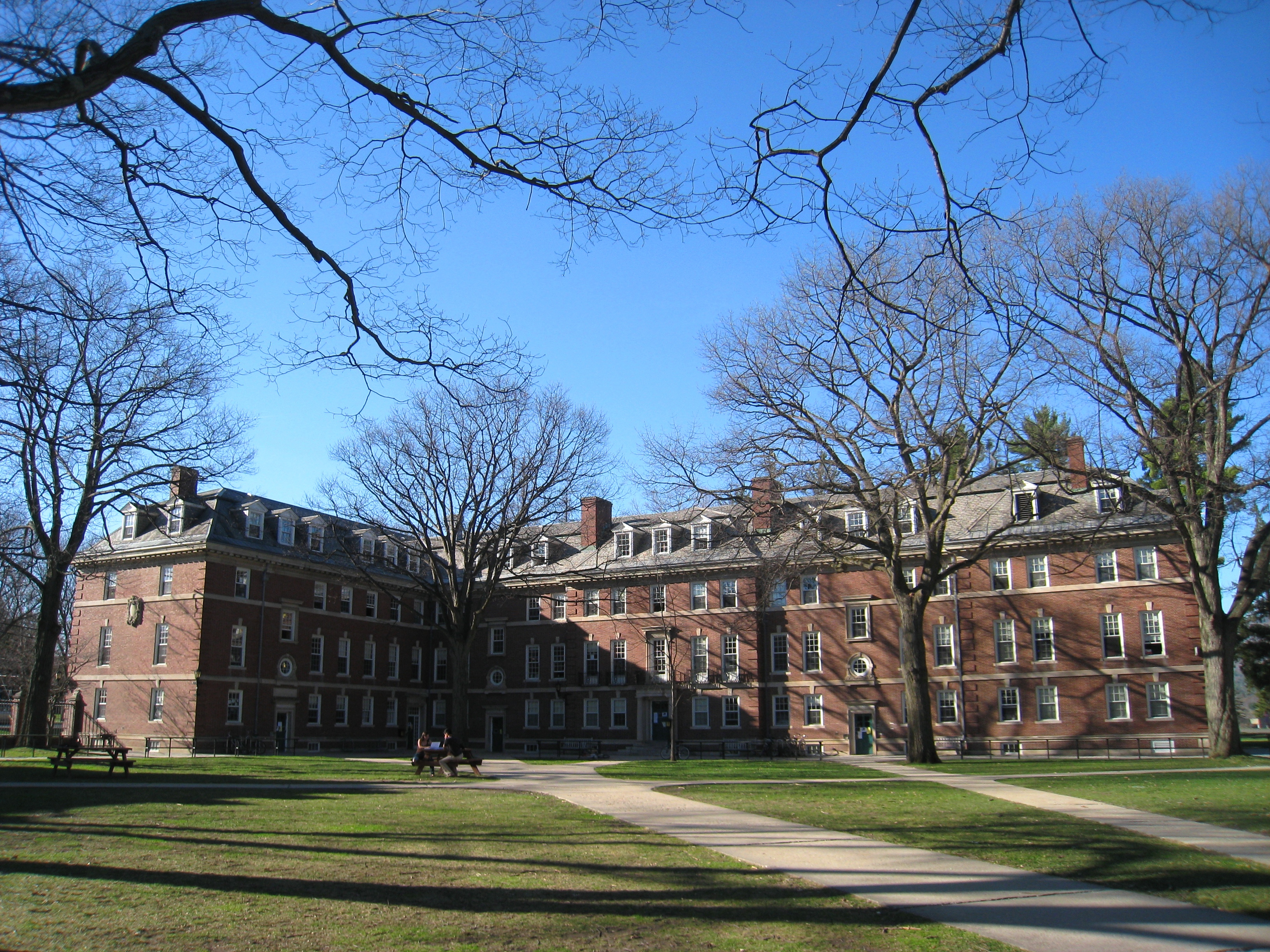 Williams College - Williams dormitory. Williamstown, Massachusetts, USA. Architects (Ralph Adams) Cram, Goodhue and Ferguson, according to Williams College website [1].